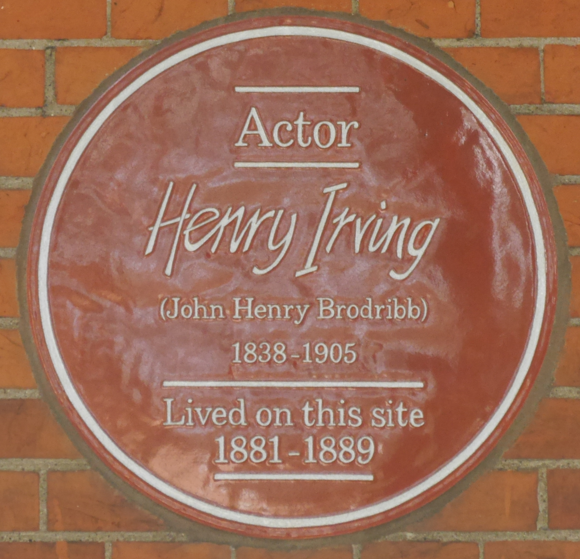 St Paul's Girls' School, London